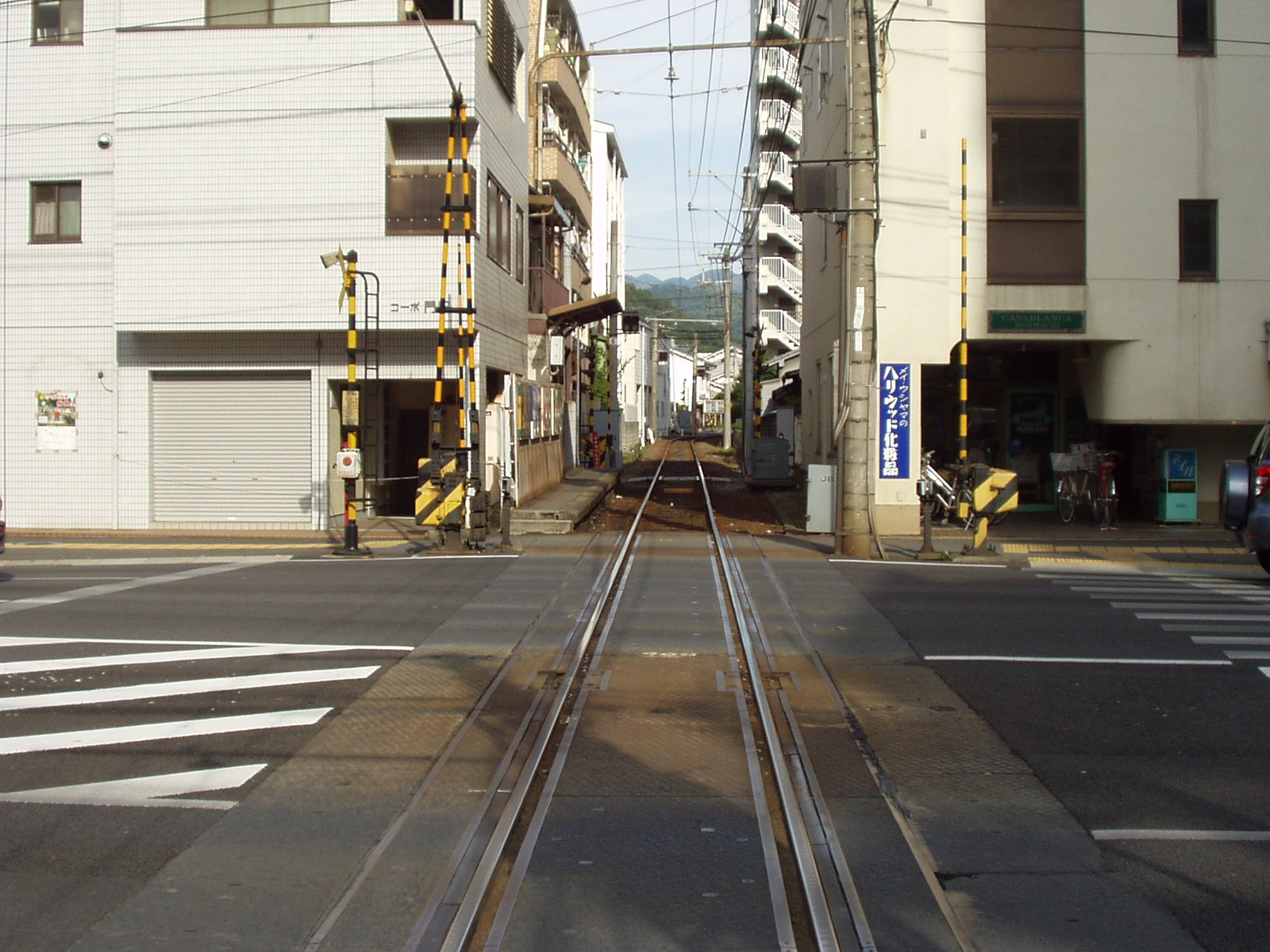 Iyo Railway Johoku Line Honmachi 6 Chome Station in Matsuyama City, Ehime Prefecture, Japan